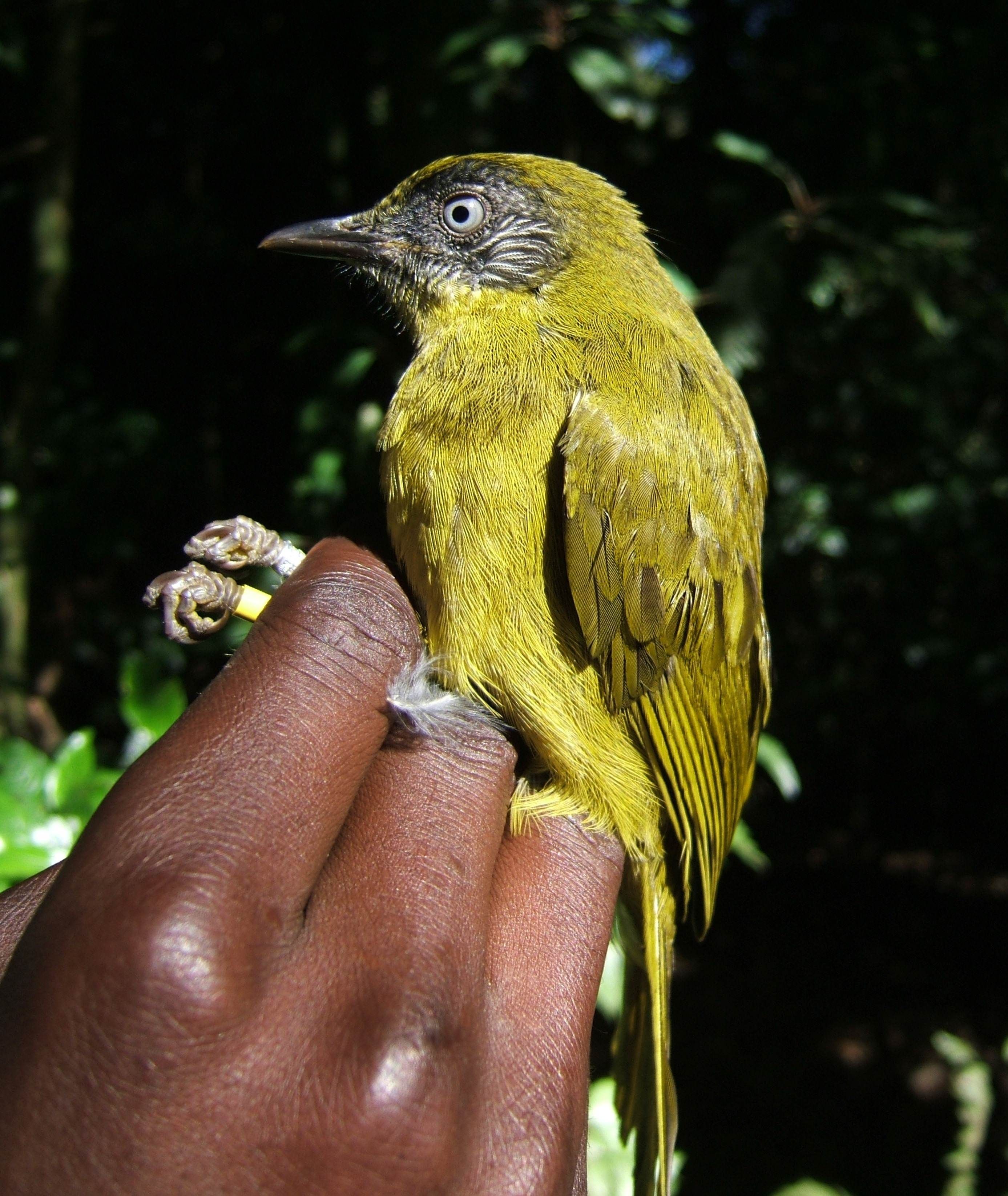 Andropadus milanjensis, captured during research in the Taita Hills, SE Kenya